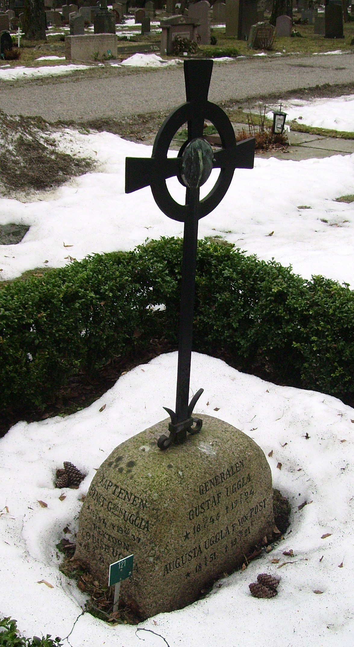 Picture of general Gustaf Uggla's (1846-1924) grave at Solna kyrkogård